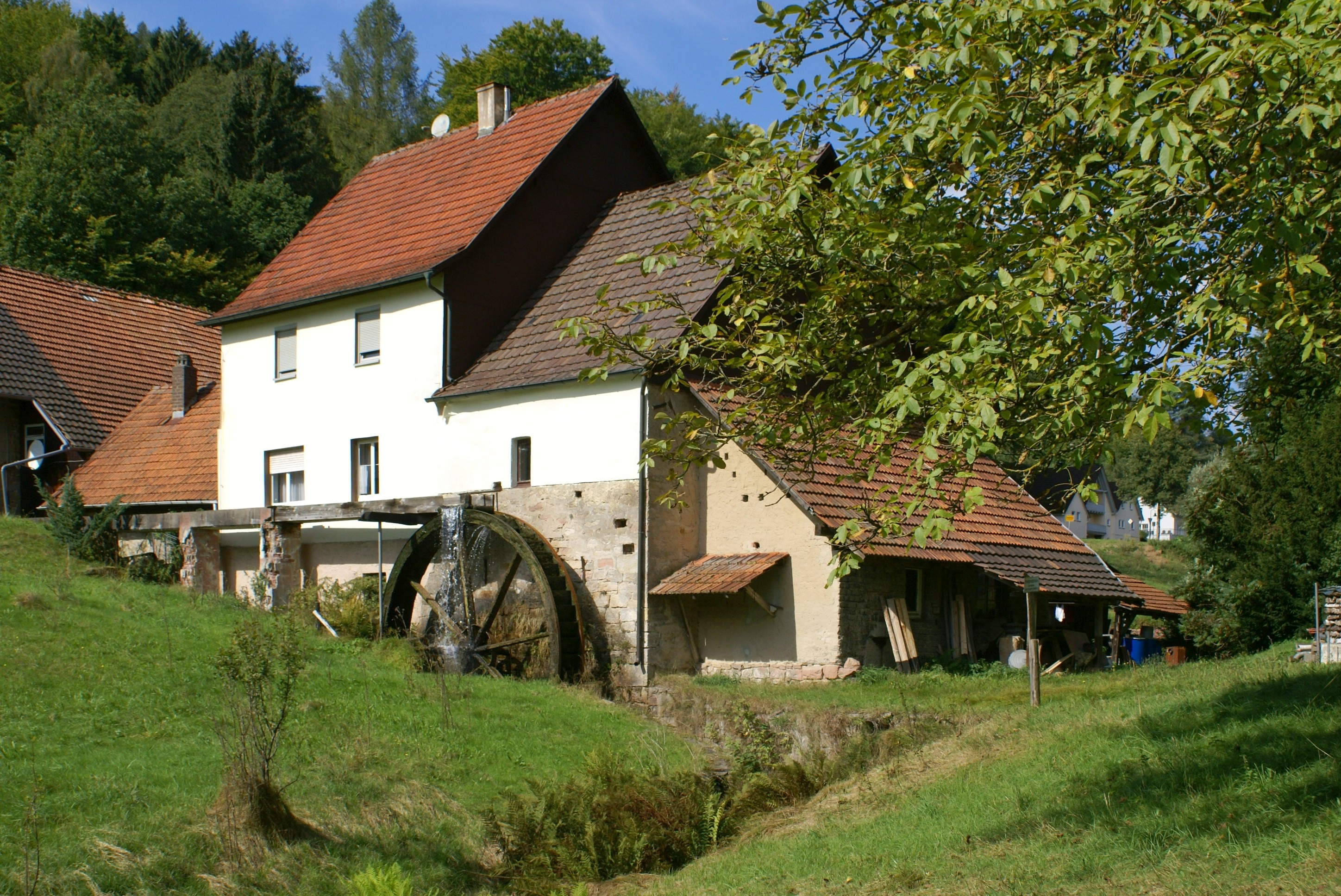 Mill at Jakobsthal a village that is part of the community Heigenbrücken